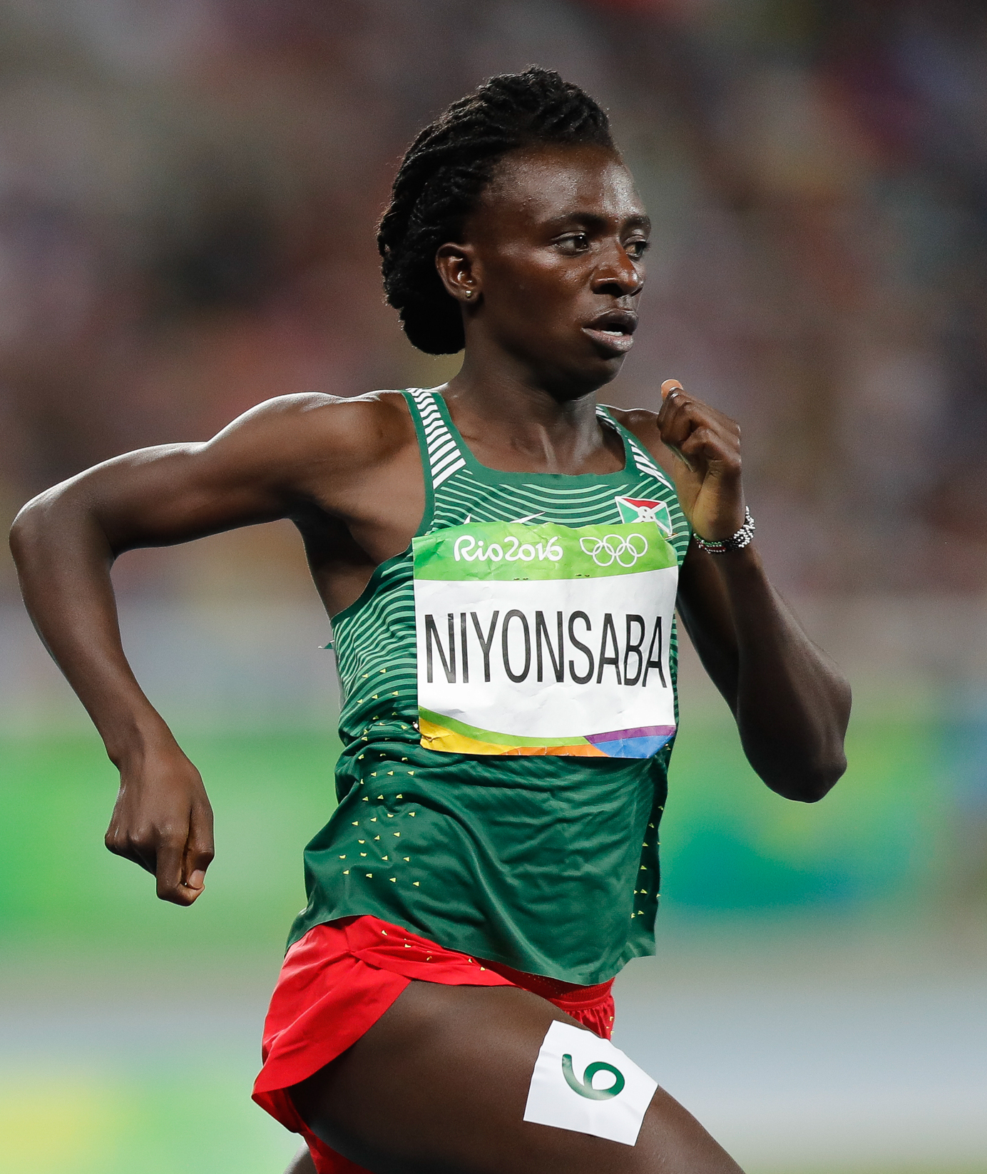 Rio de Janeiro - Semifinais dos 800m feminino nos Jogos Rio 2016, no Estádio Olímpico. (Fernando Frazão/Agência Brasil)